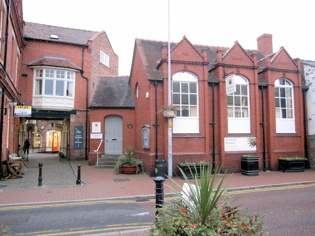 Nantwich Museum, and the entrance to The Cocoa Yard. Nantwich Museum is the building on the right, and there is a Flush Bracket bench mark just to the right of the grey lamppost - 1566280. The opening on the left leads into The Cocoa Yard, named after the Victoria Cocoa House, which was located there in 1897 as part of the Temperance Movement.